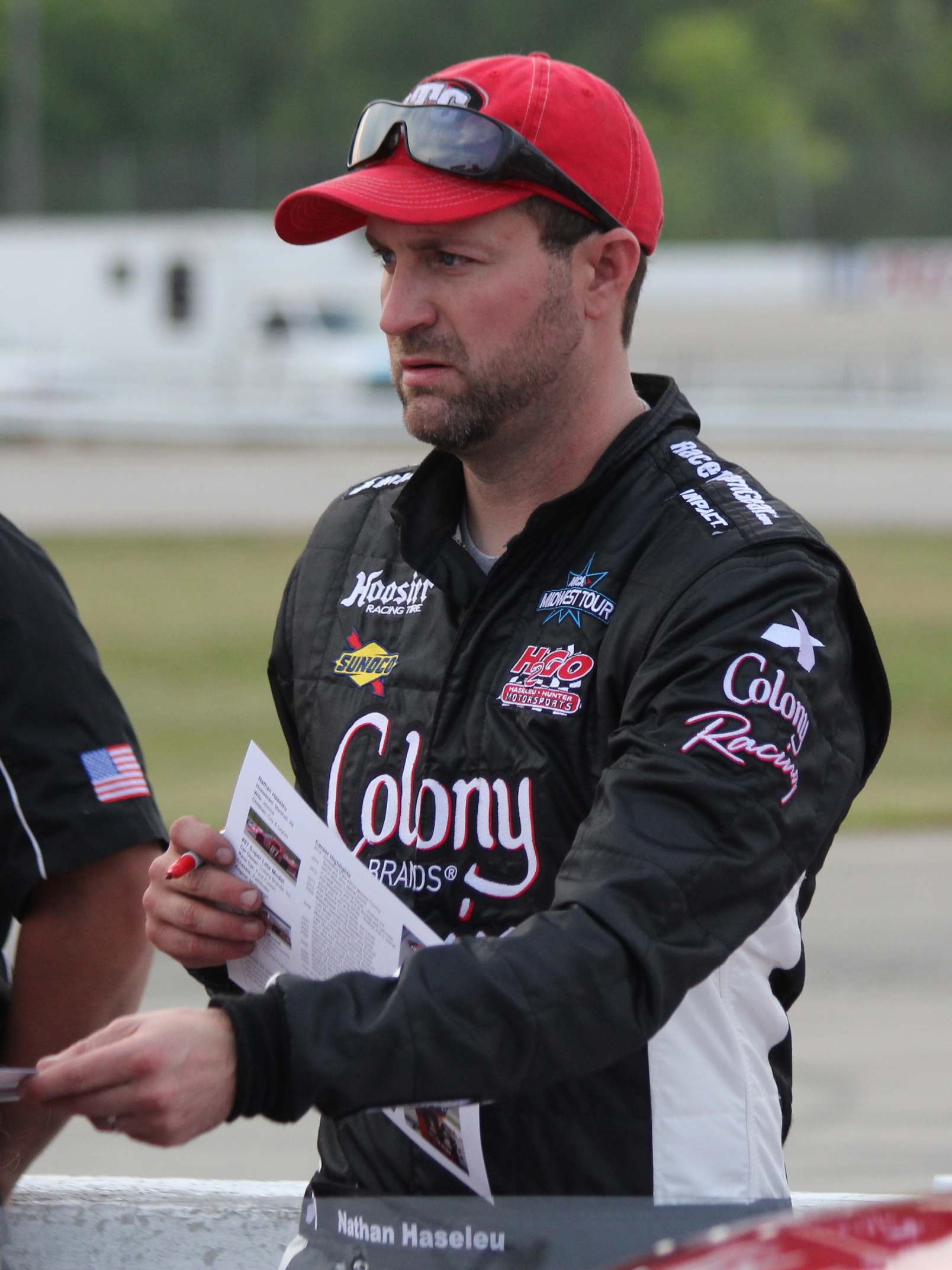 Former NASCAR driver Nathan Haseleu handing his autograph to a fan at an ARCA Midwest Tour event at Wisconsin International Raceway.